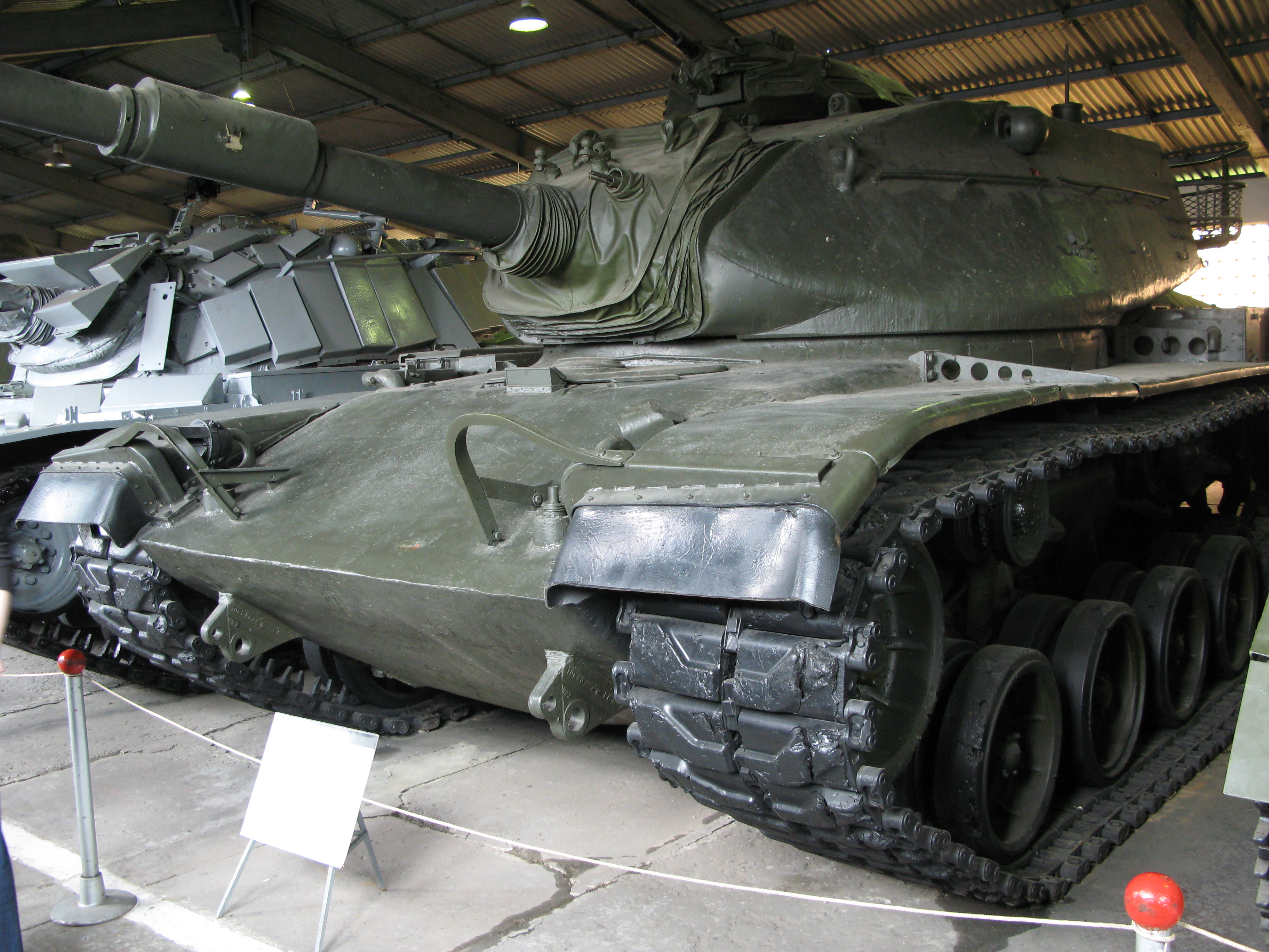 105 mm Gun Full Tracked Combat Tank M60 in Kubinka Tank Museum